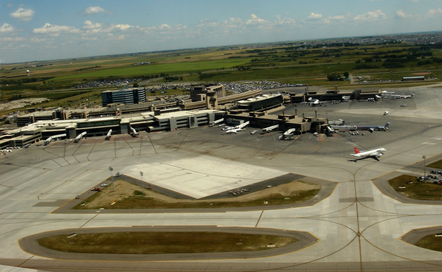 Overview of Calgary International Airport